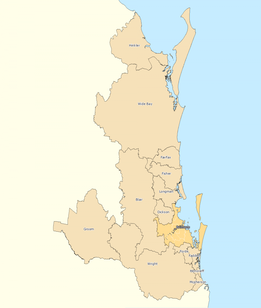 This image incorporates data that is: © Commonwealth of Australia (Australian Electoral Commission) 2009 Outside Brisbane divisions overview 2010